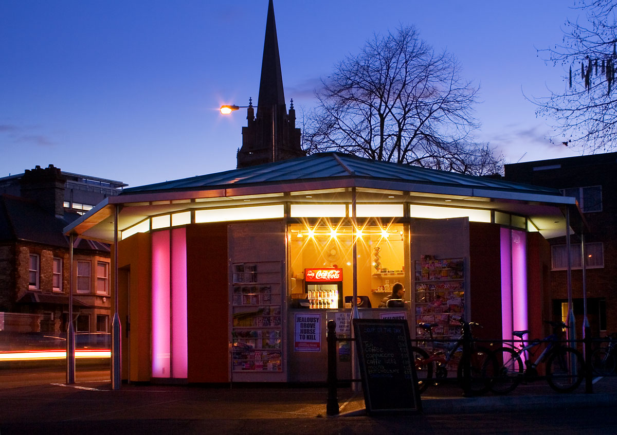 Public toilets on Parker's Piece, Cambridge.